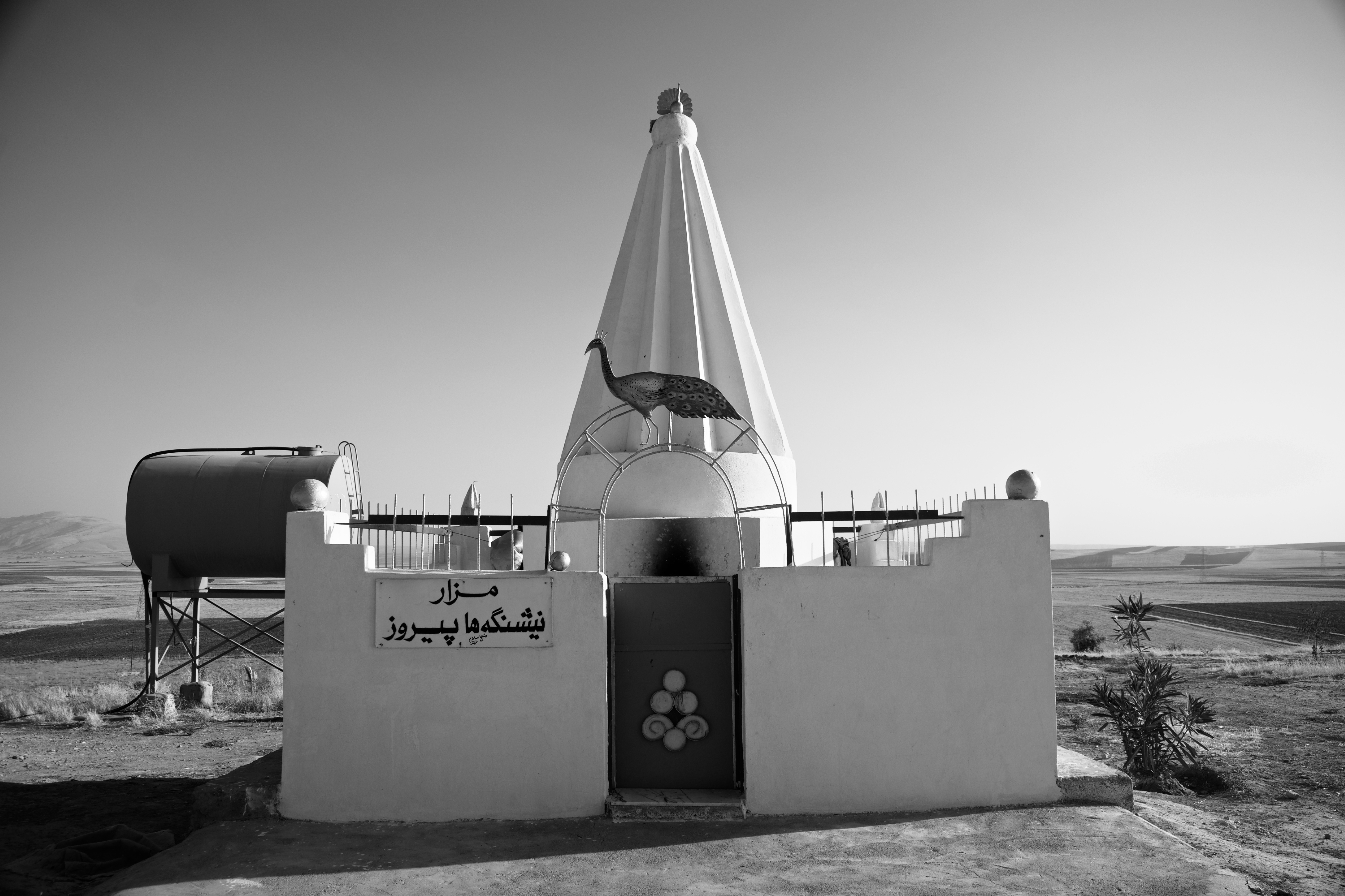 Views around the Ezidi shrine of Nishingaha Peroz (مزار نیشنگه‌ها پیروز) near Shekhan on the Erbil-Duhok road.